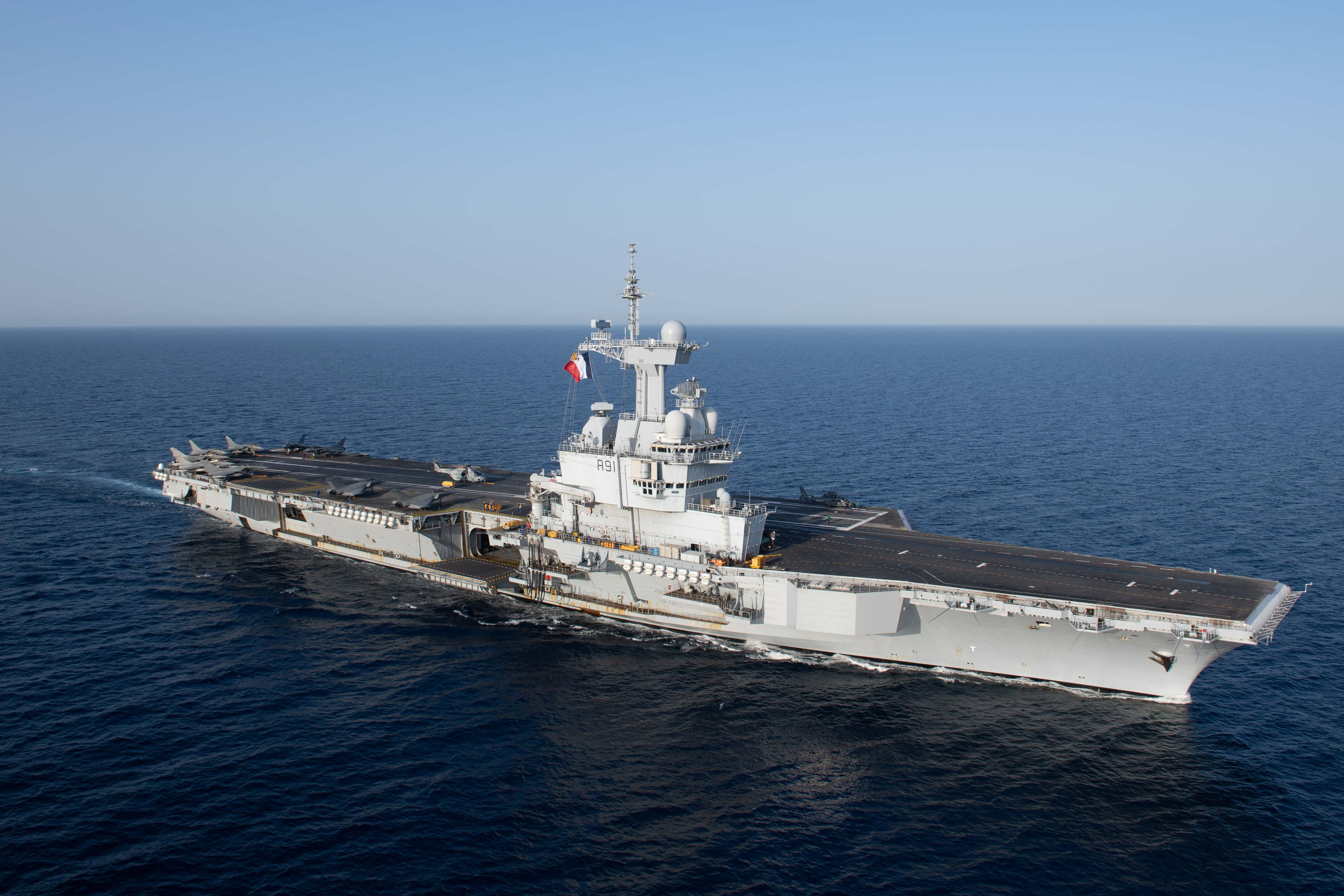 The French Marine Nationale aircraft carrier Charles de Gaulle (R91) underway in the Red Sea on 15 April 2019.